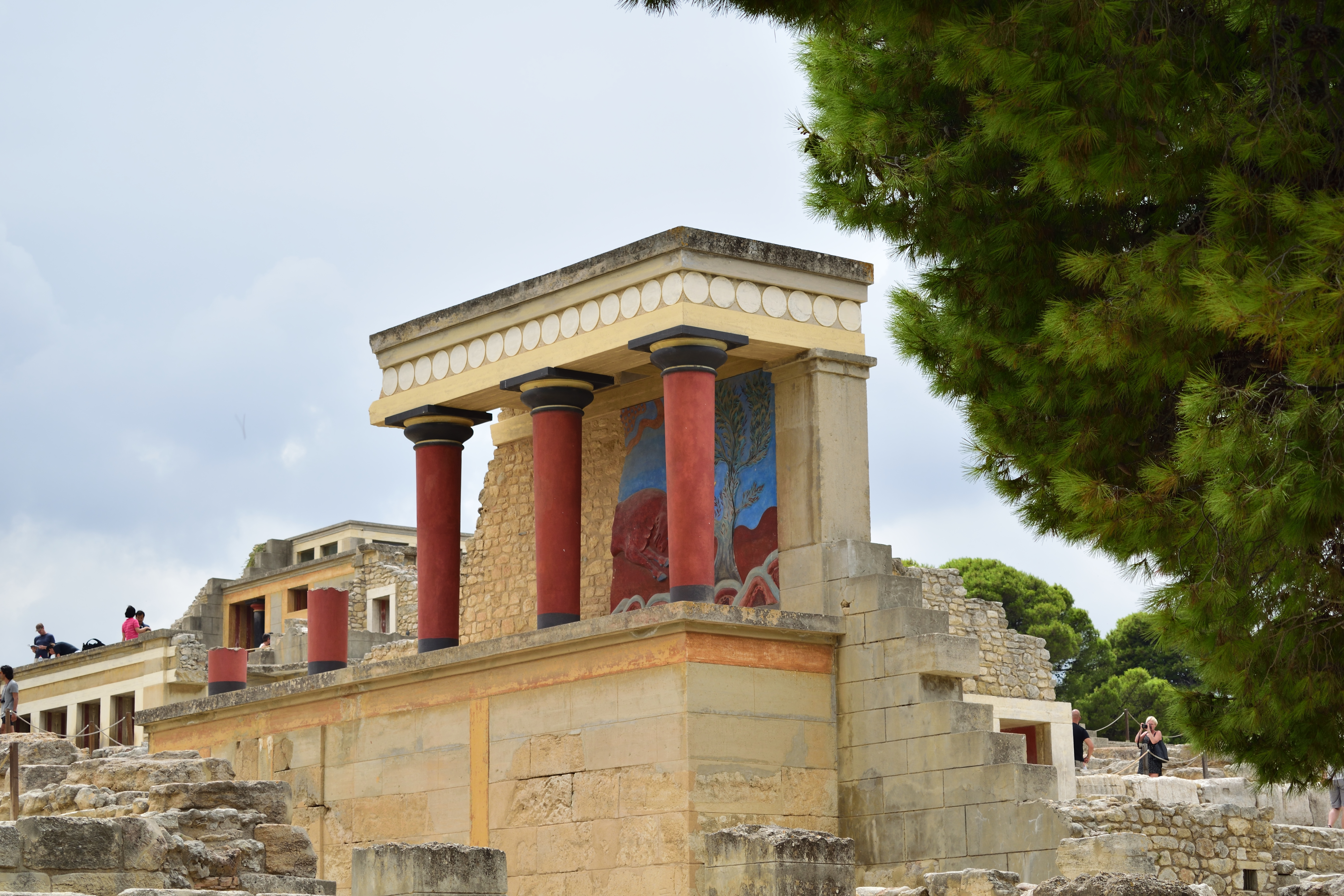 Knossos' palace.«Κνωσός»